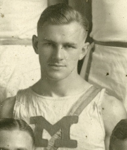 Photograph of 1922 NCAA champion javelin thrower Howard Hoffman, cropped from team portrait of 1921 Michigan Wolverines track and field team. First published in the 1922 Michiganensian, page 238